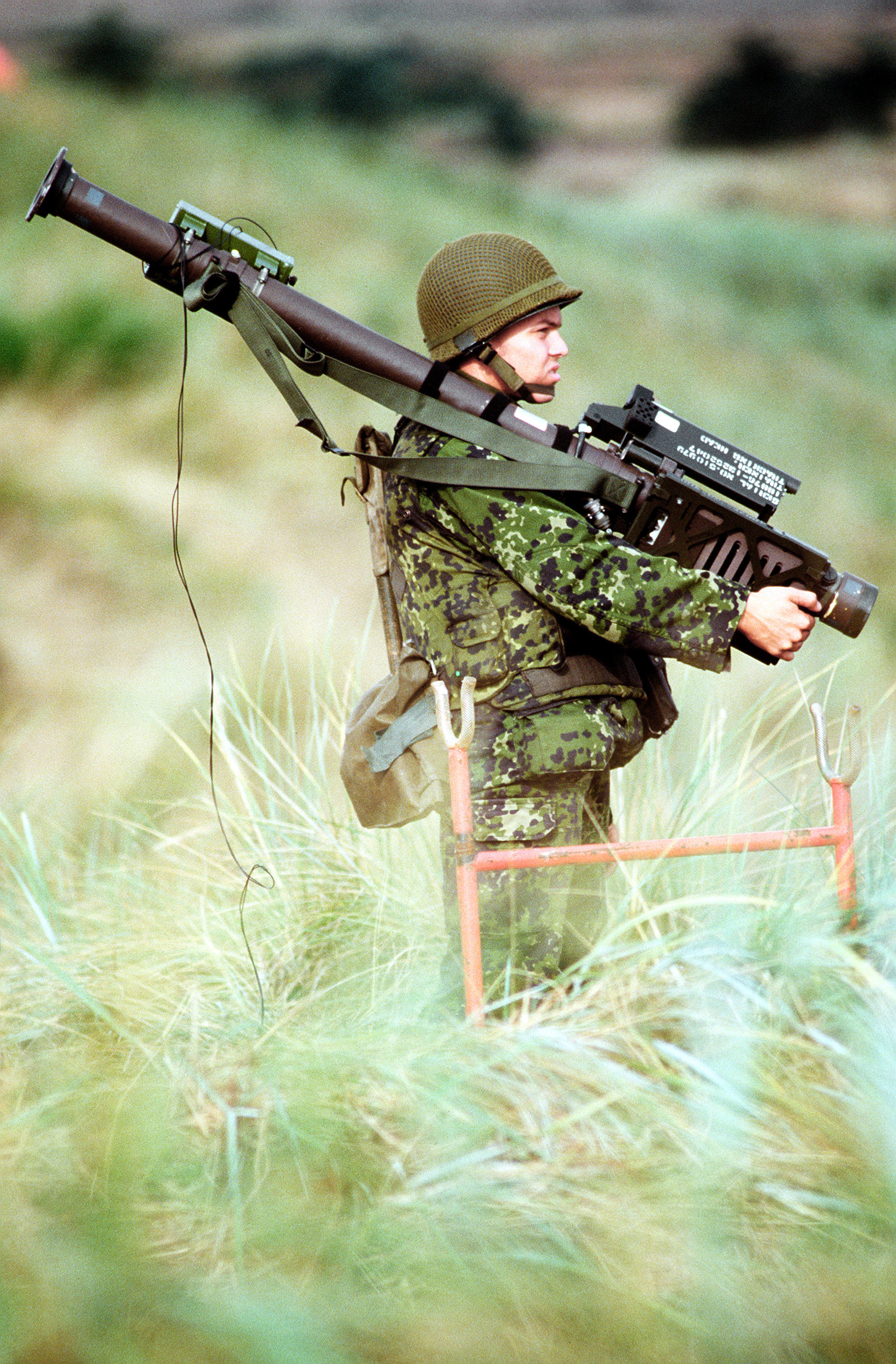 A member of the Danish Army stands and waits for a simulated aerial attack on targets at a Danish bombing range. Danish and American F-16 Fighting Falcons simulate firing and downing of the jets. The three week exercise began on 26 August 1995 and is designed to test the effectiveness of both Danish and American air defenses.